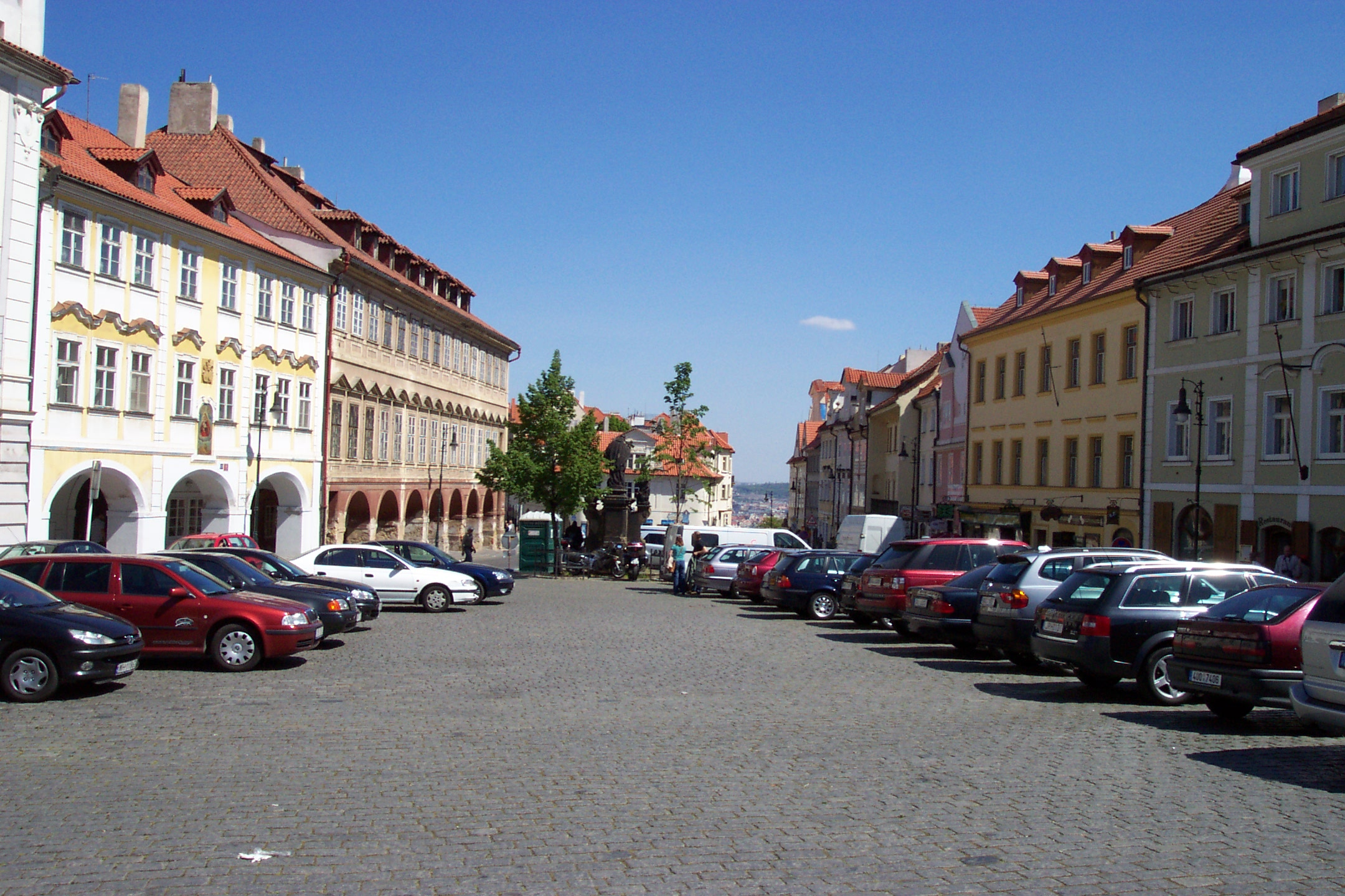 The Pohořelec at Prague Hradčany